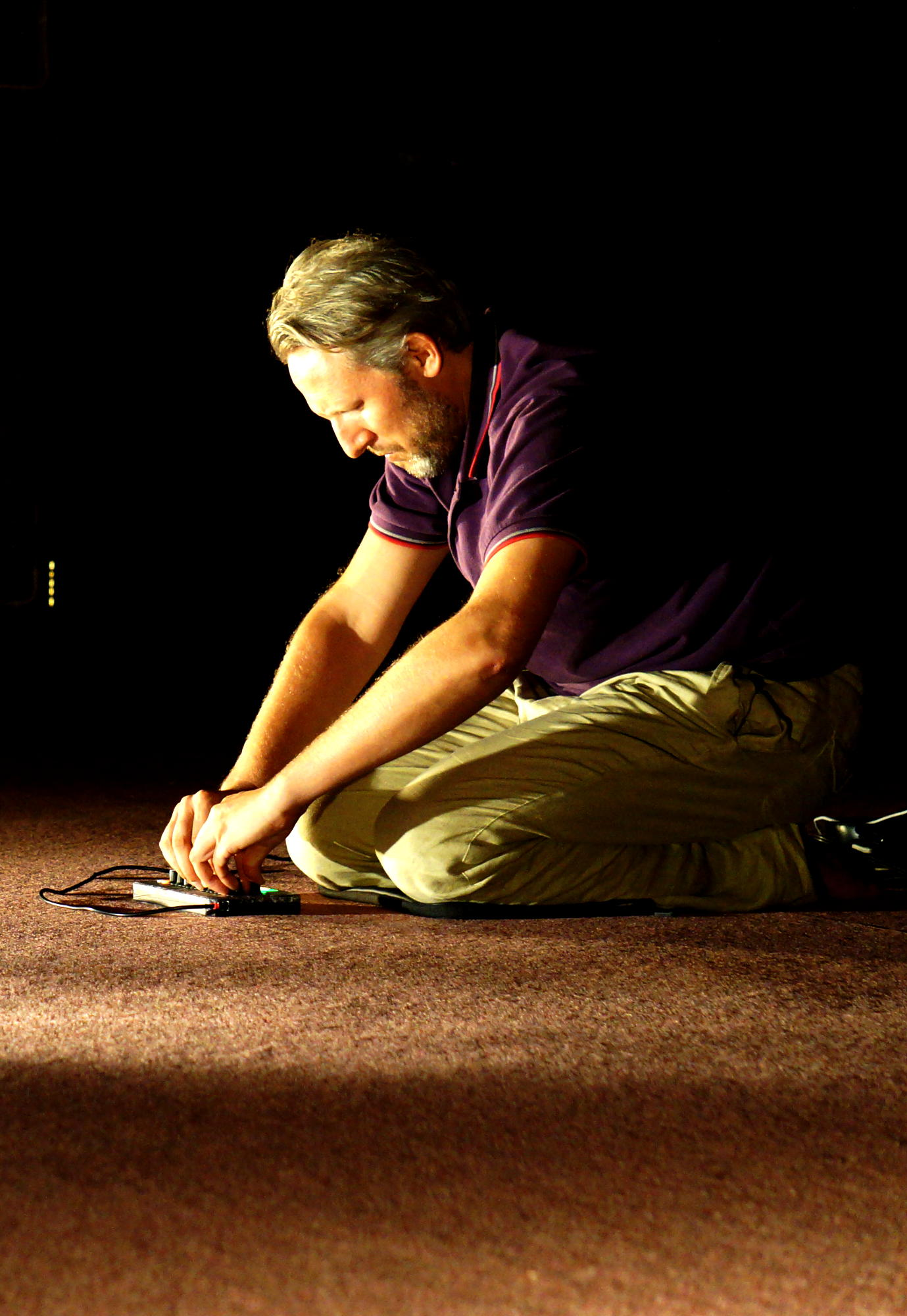 Szkieve at Lokananta Studios in Solo, Java, Indonesia, Dec, 16, 2014